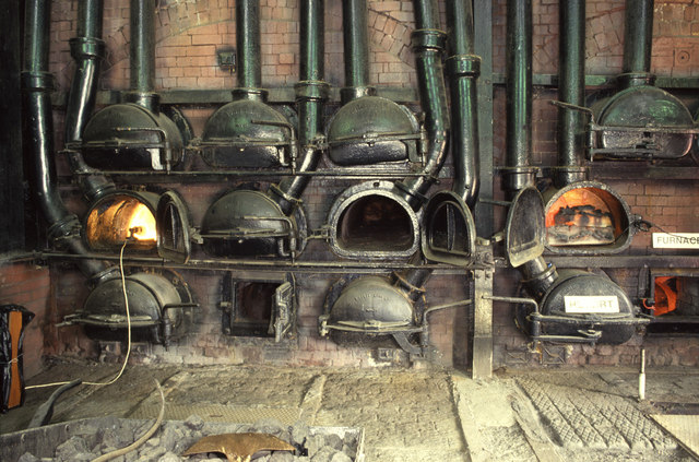 Fakenham Gas Works Last horizontal retort gas works in England (another at Biggar, Scotland and one in Ulster)